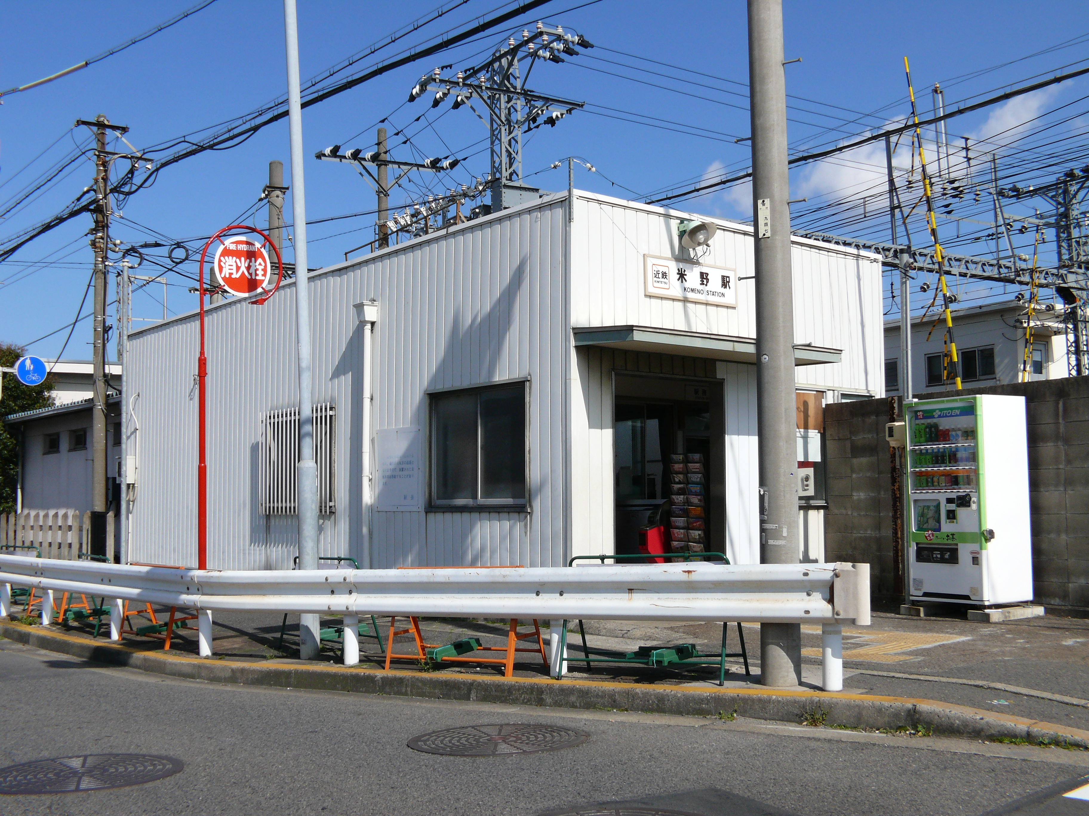 Kintetsu of Komeno Station.